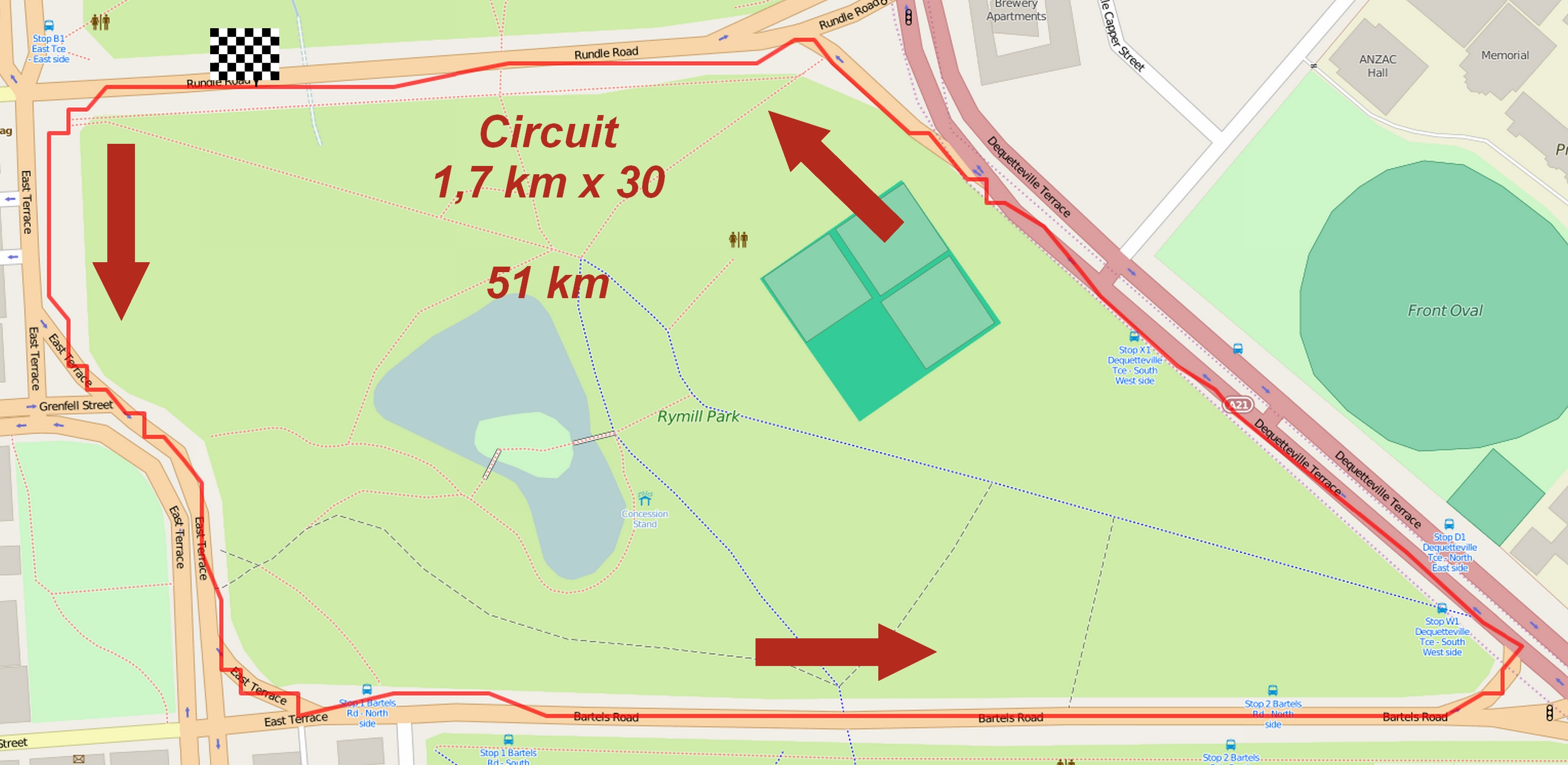 Parcours de la People's Choice Classic 2015. This map may be incomplete, and may contain errors. Don't rely solely on it for navigation.